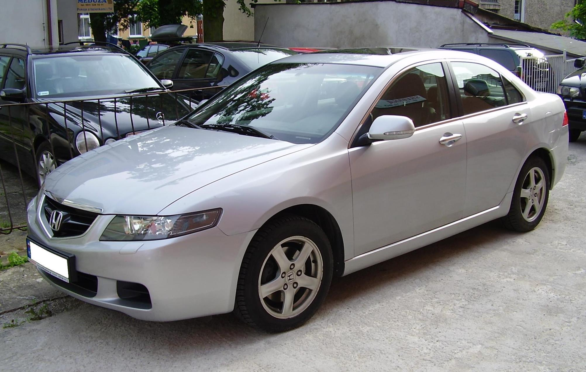 Honda Accord in Międzyzdroje (Poland)